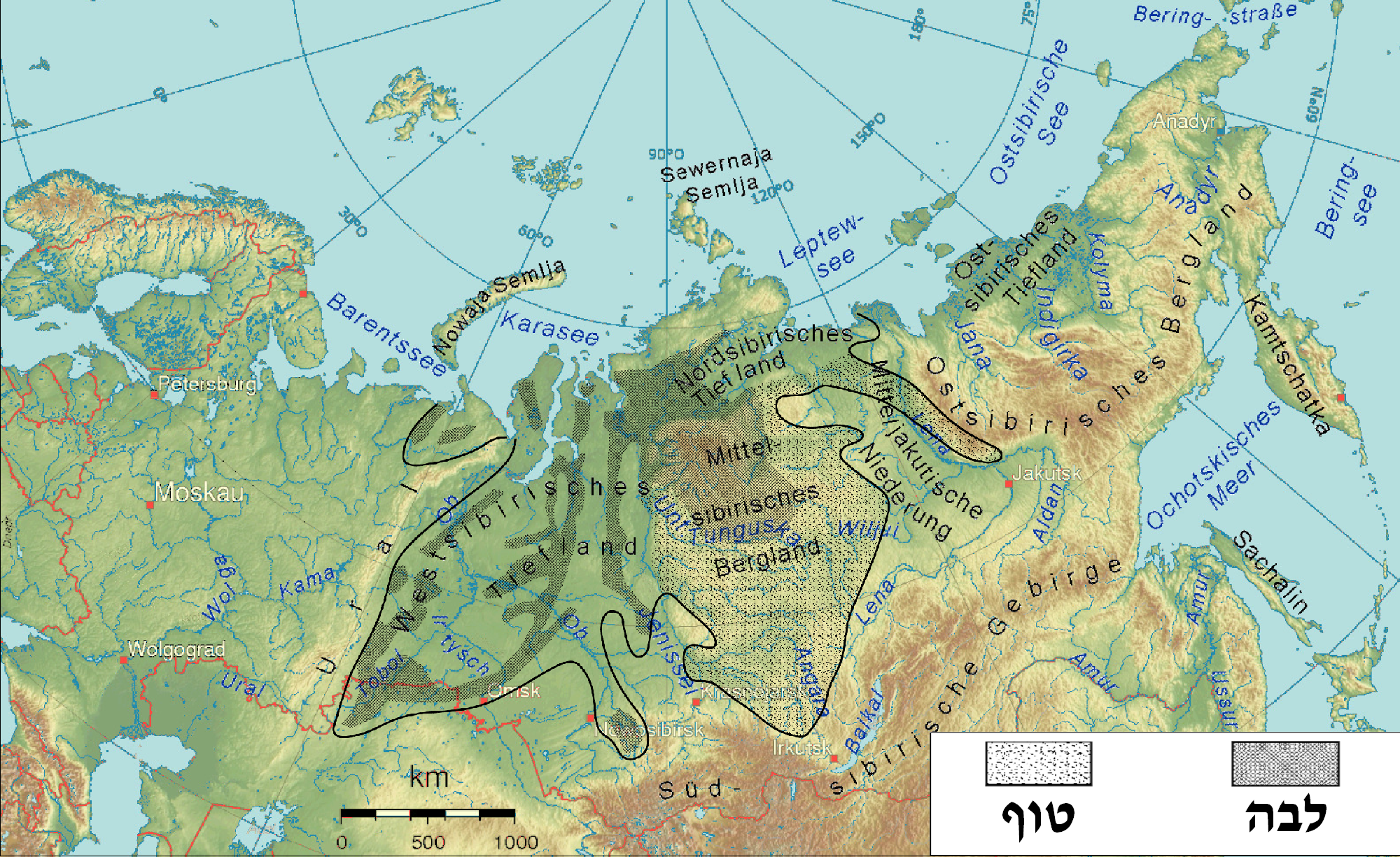 Siberian traps